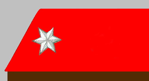 Vormeister - Gunner 1st class of the k.u.k. Artillery (Brown coat, distinction color: madder)